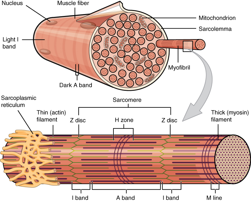 Version 8.25 from the Textbook OpenStax Anatomy and Physiology Published May 18, 2016